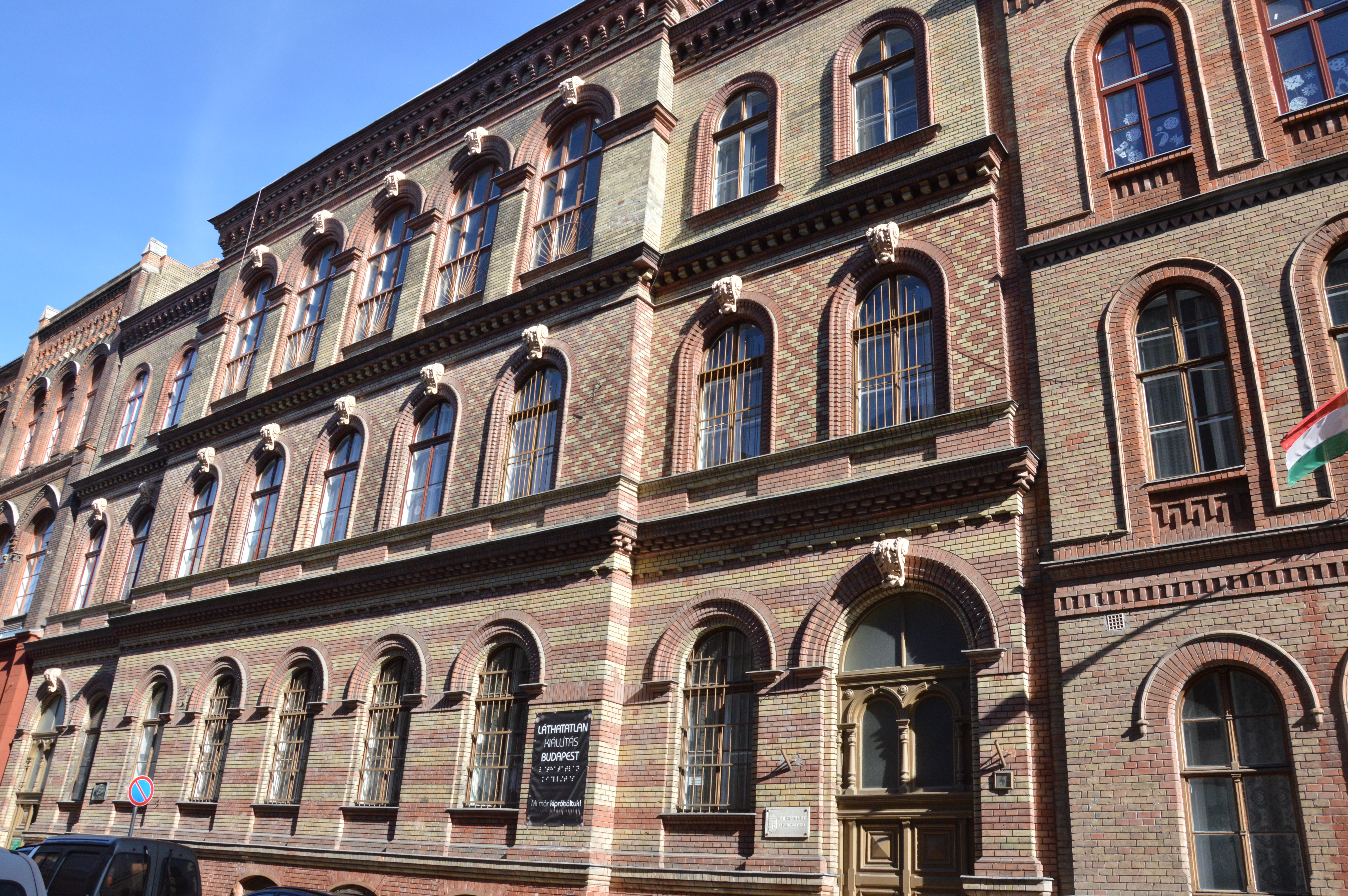 Szent-Györgyi Albert Általános Iskola, Lónyay utca 4-6, Budapest, Hungary. The school attended by the characters in Ferenc Molnár's youth novel, "The Paul Street Boys".